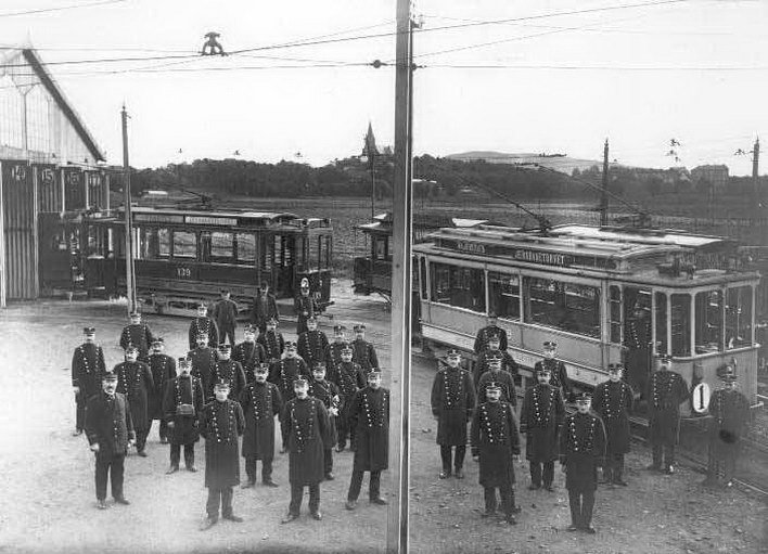 Kristiania Elektriske Sporvei tram 189 (Herbrand) and 139 (Union) and staff in front of Hall 4 at Majorstuen Depot.